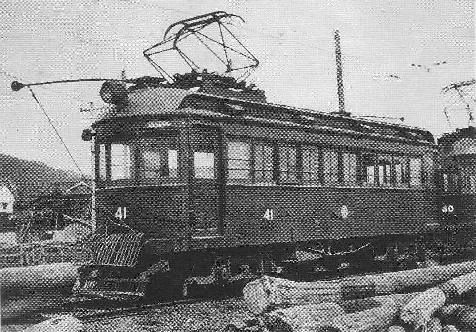 Hankyu 40 series tramcar No. 41